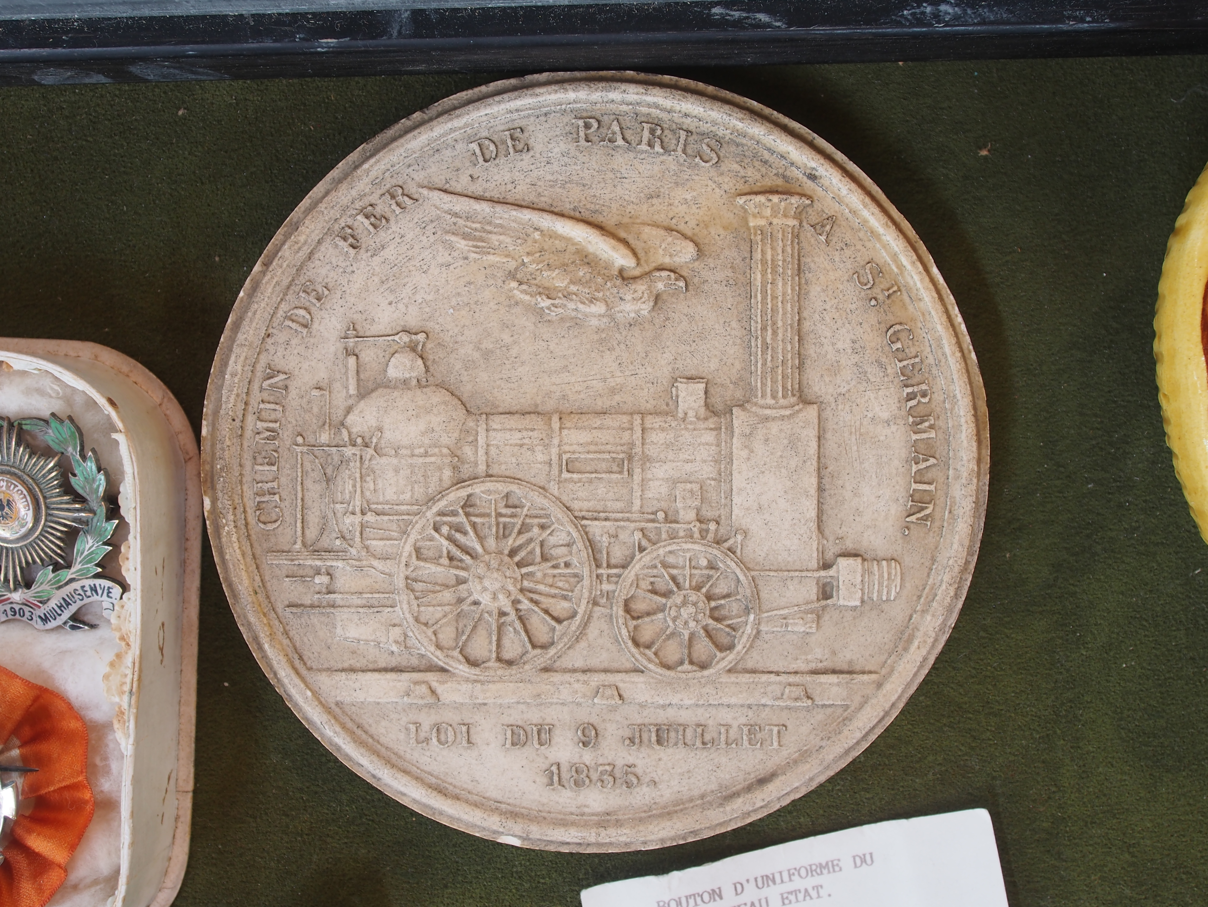 Photographed in Mulhouse, France.